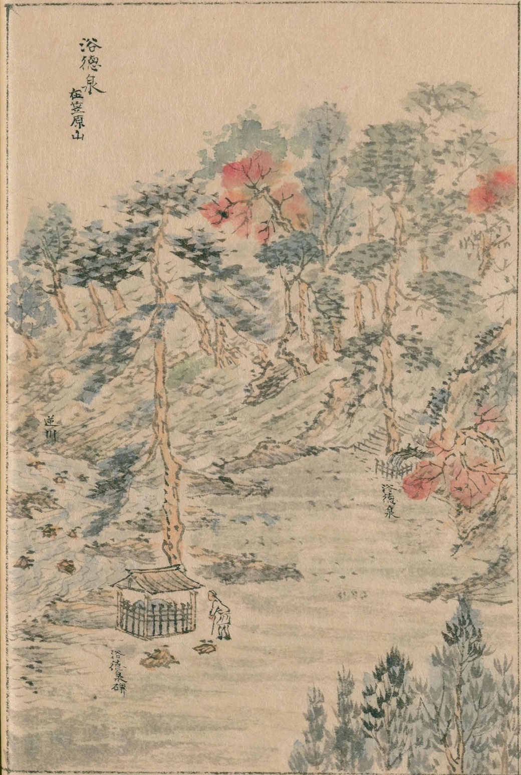 Picture "Yokutokusen" in "Syobutu Kaiyou" by Matsudaira Setsukou. "Yokutokusen" is a monument in "Kasahara Suidou" in Mito , Ibaraki. From the National Diet Library Digital Collection.